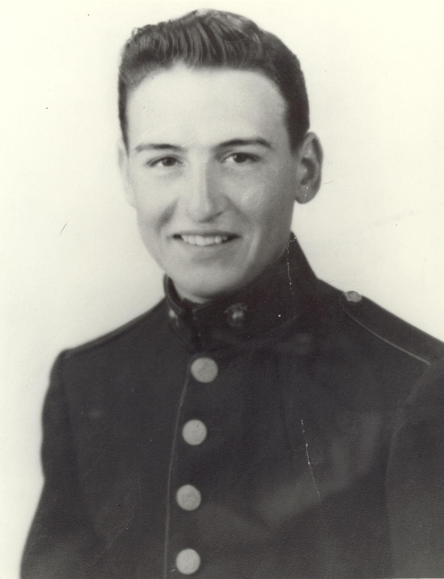 James La Belle, USMC; Medal of Honor recipient; image from official Marine Corps bio at